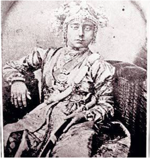 In V.D. Savarkar's book The Indian War of Independence (1909), this photo was misidentified as that of Rani Laxmibai taken in 1852 by German photographer Hoffman in Jhansi, India. According to the family historian Allen Copsey the subject of the photograph is either (1) Sultan Jahan Begum of Bhopal (1838-1901) who in 1872 was created a Grand commander of the Most Exalted Order of the Star of India; or (2) her daughter Sultan Jahan Begum of Bhopal (1858-1930) who in 1904 received the Grand Commander of the Indian Empire and in 1910 the Grand Commander of the Star of India. (See 1910 commemorative postcard). That she wears two collars of orders indicates that it is the former Begum, about 1878.